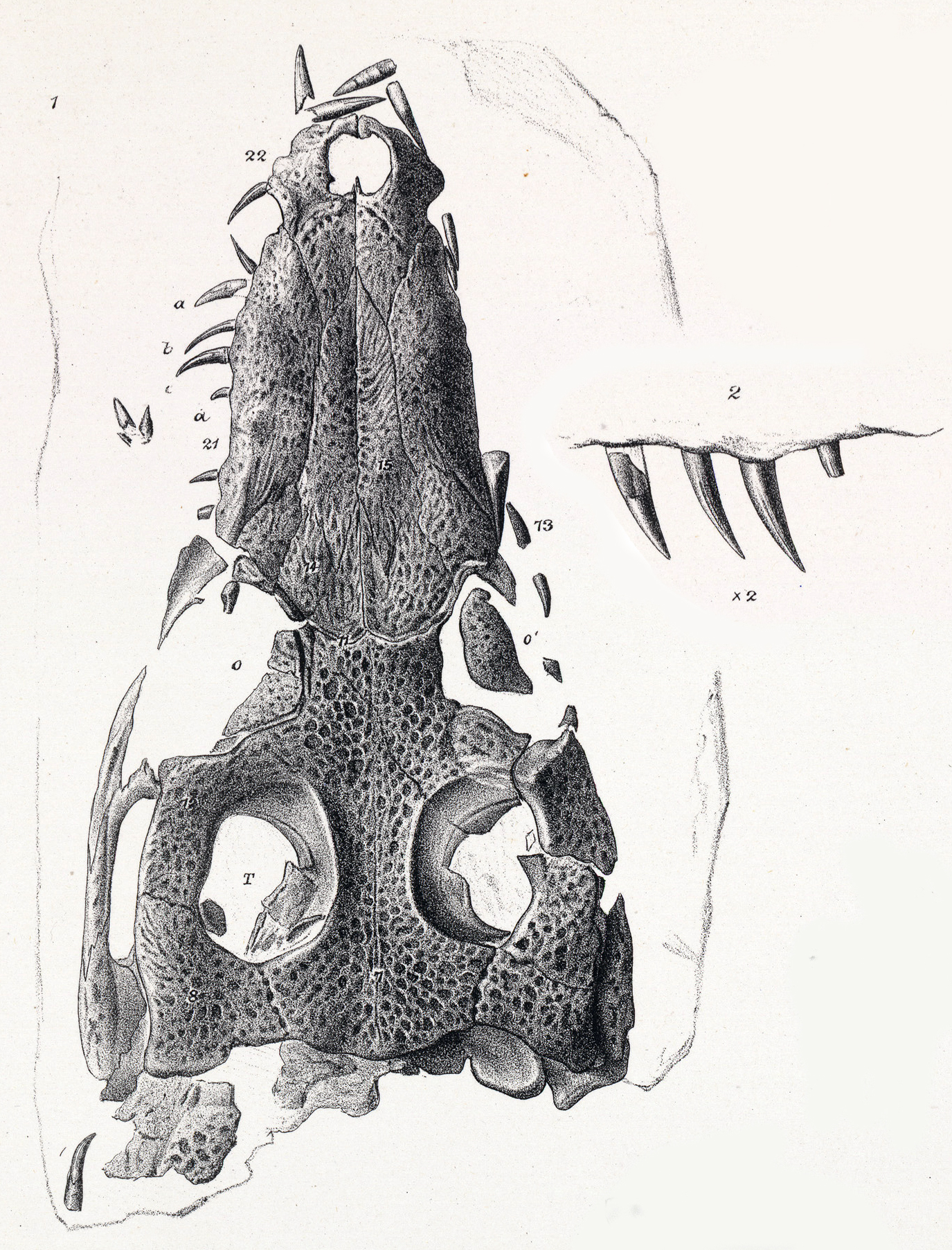 Genus—Nannosuchus holotype BMNH 48217. Fig. 1. Upper view of skull of Nannosuchus gracilidens. Fig. 2. Crowns of four teeth, a, b, c, d, in fig. 1, magnified 2 diameters. From the Middle Purbeck; in the British Museum.